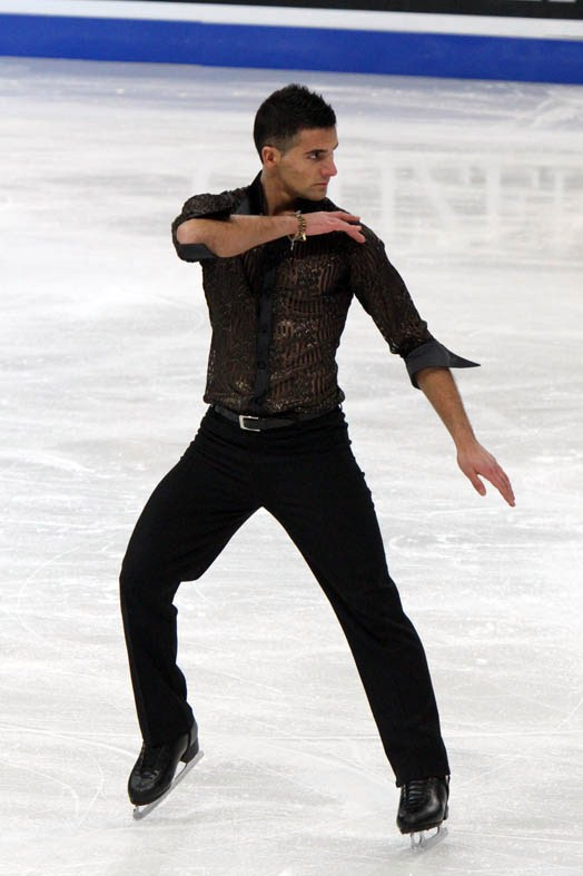 Damjan Ostojič at the 2011 European Figure Skating Championships.